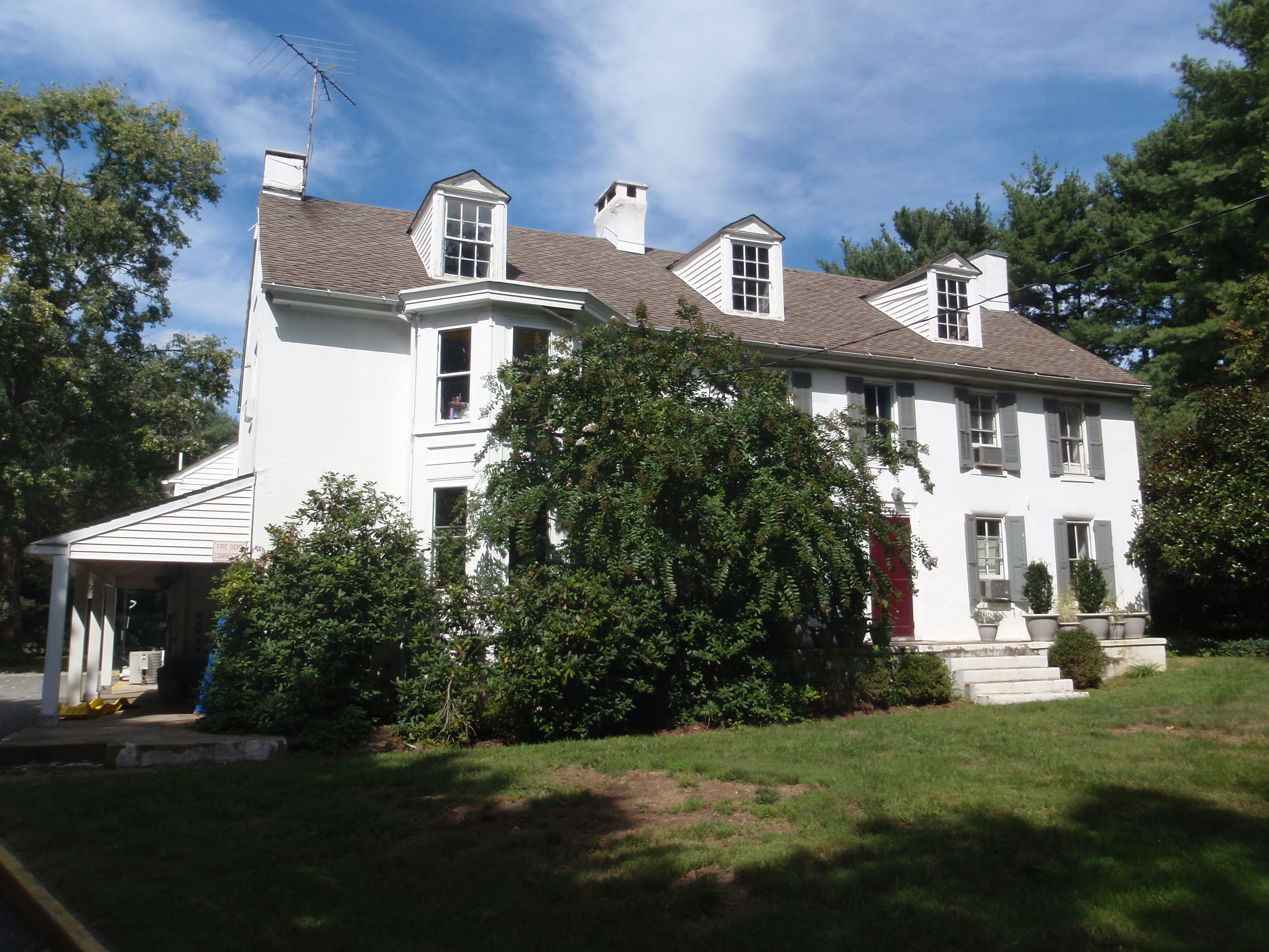 Andrew Kerr House Front view of the Andrew Kerr House.